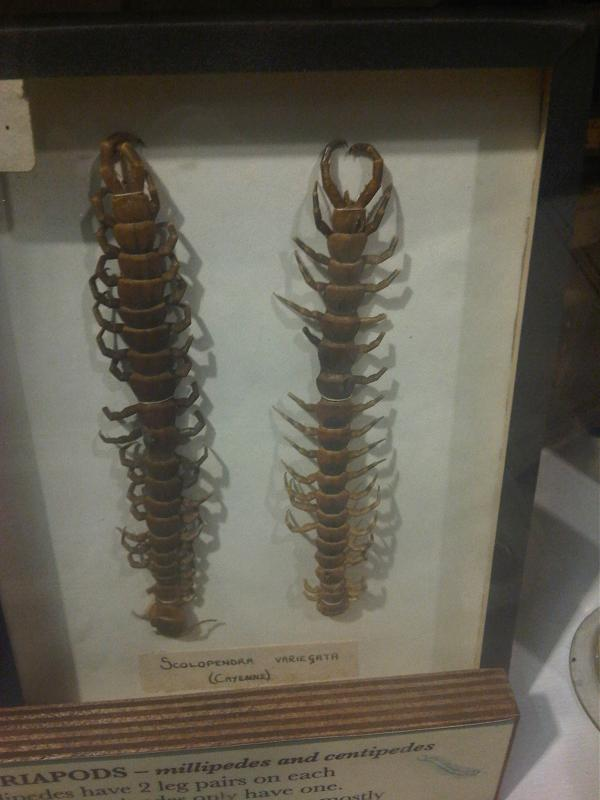 Scolopendra viridicornis in Grant Museum of Zoology, London, England.